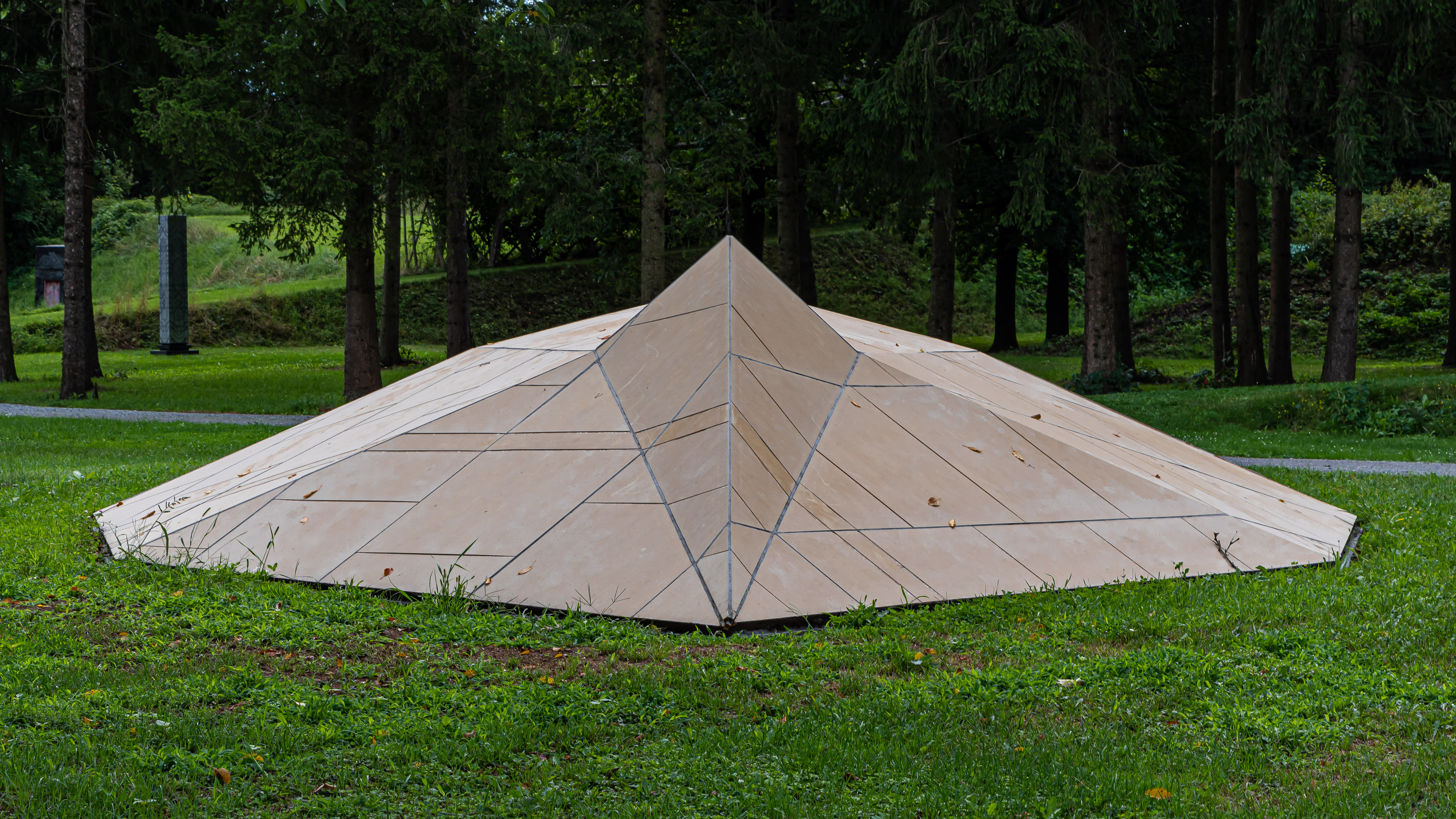 Tiger Stealth by Peter Sandbichler Liste der Kunstwerke im Österreichischen Skulpturenpark